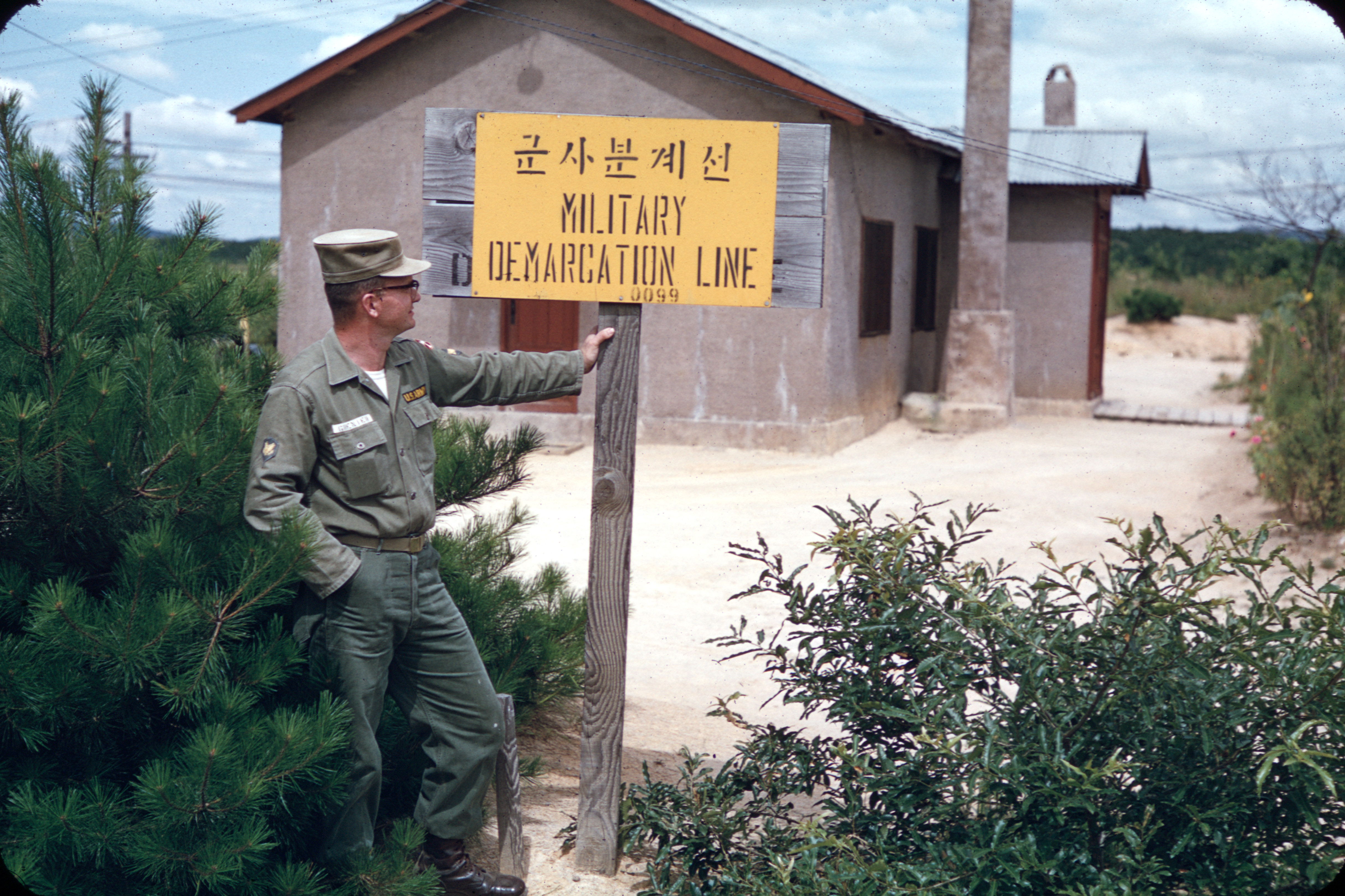 Soldier (D. E. Grenier) along side a demarcation sign at Panmunjom Korea 1956. Building in the background is North Korean.